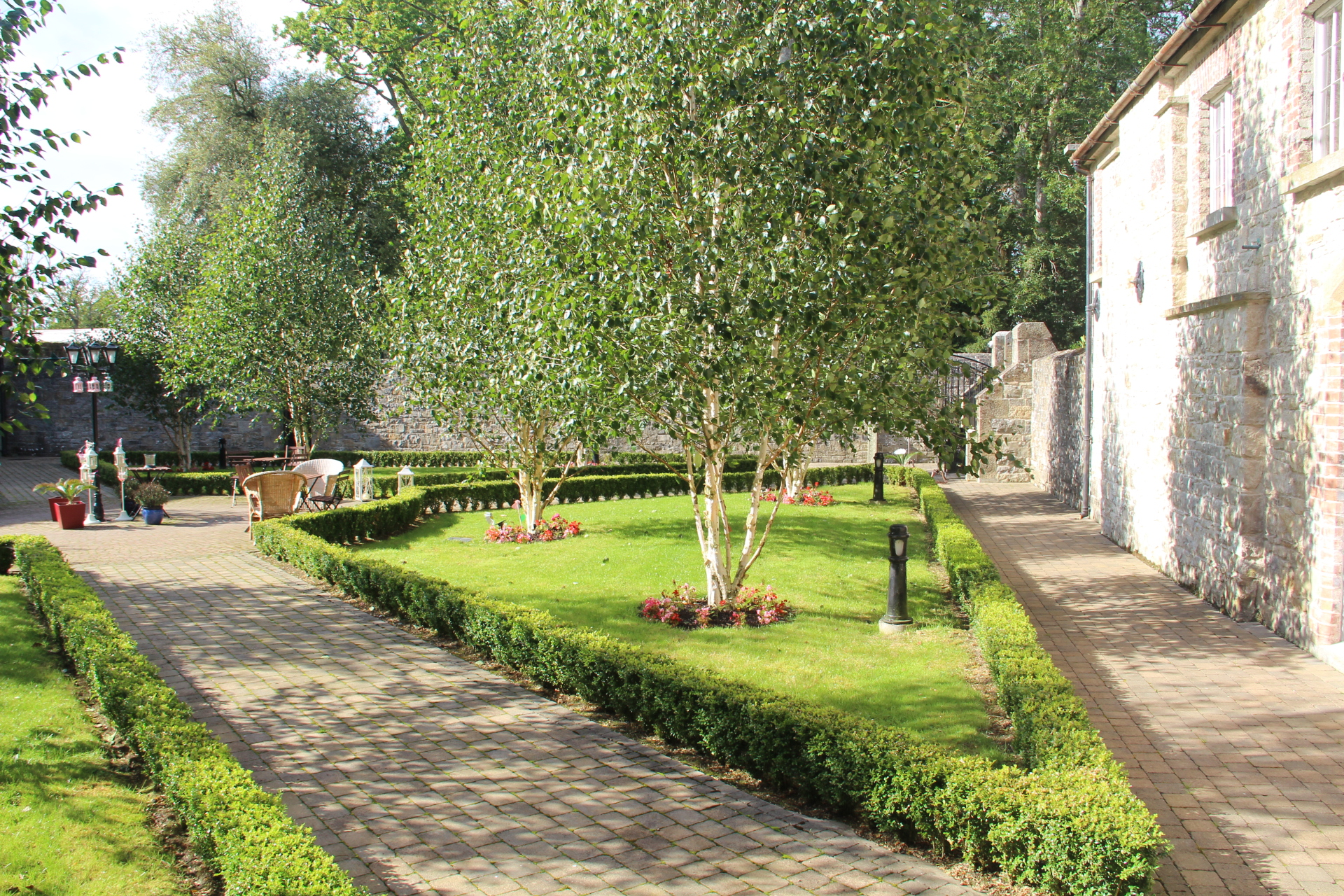 Internal Courtyard